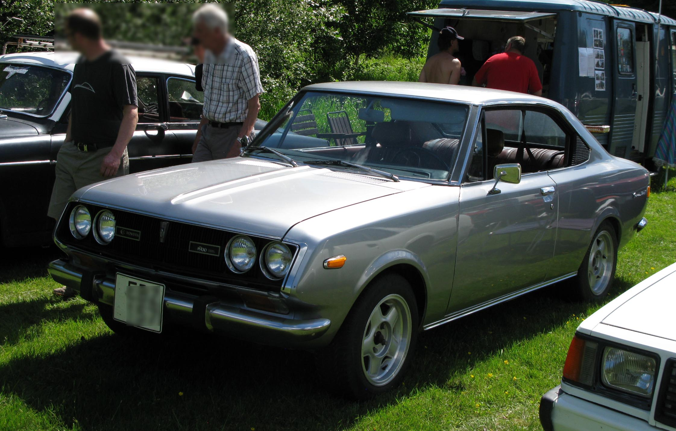 1971 Toyota Corona Mark II T70.Event: Ånnaboda Classic Motor 2011